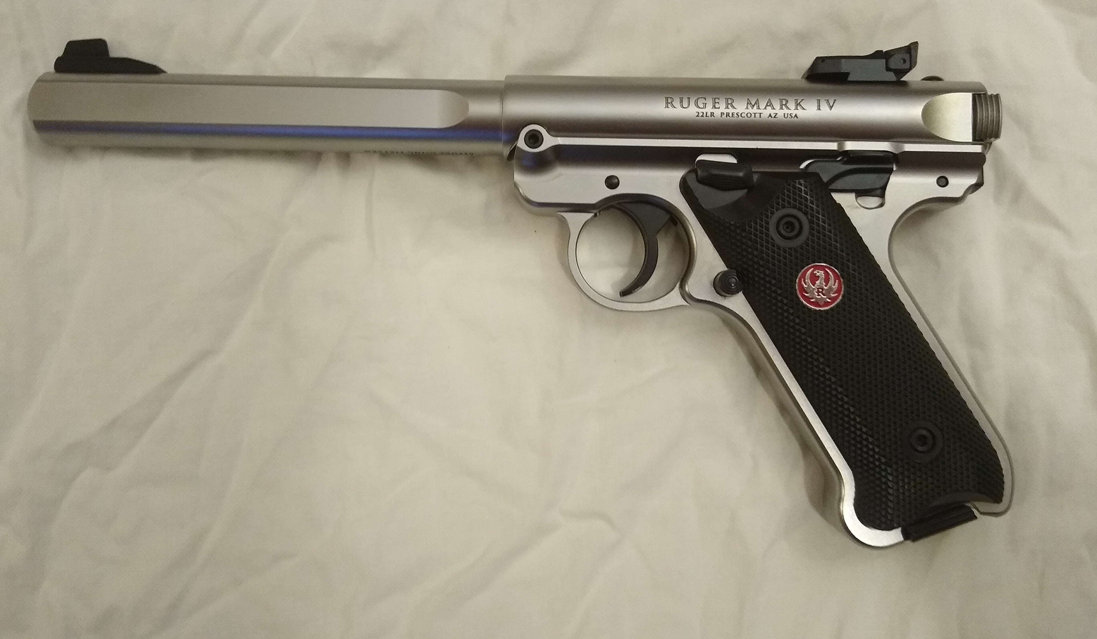 Ruger MK IV Competition, but with standard grips.